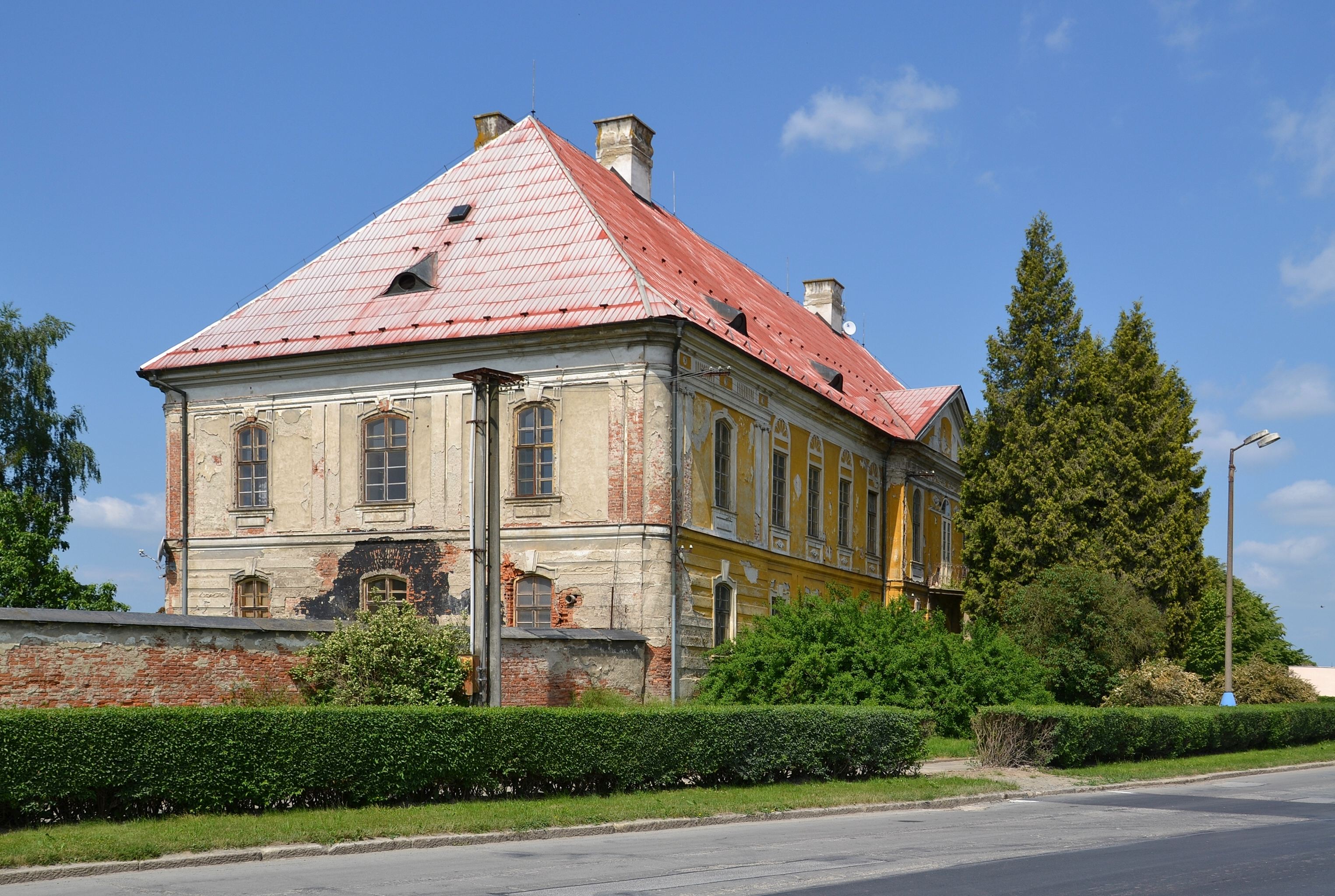 Žerotín (Scherotein), Czech Republic - castle